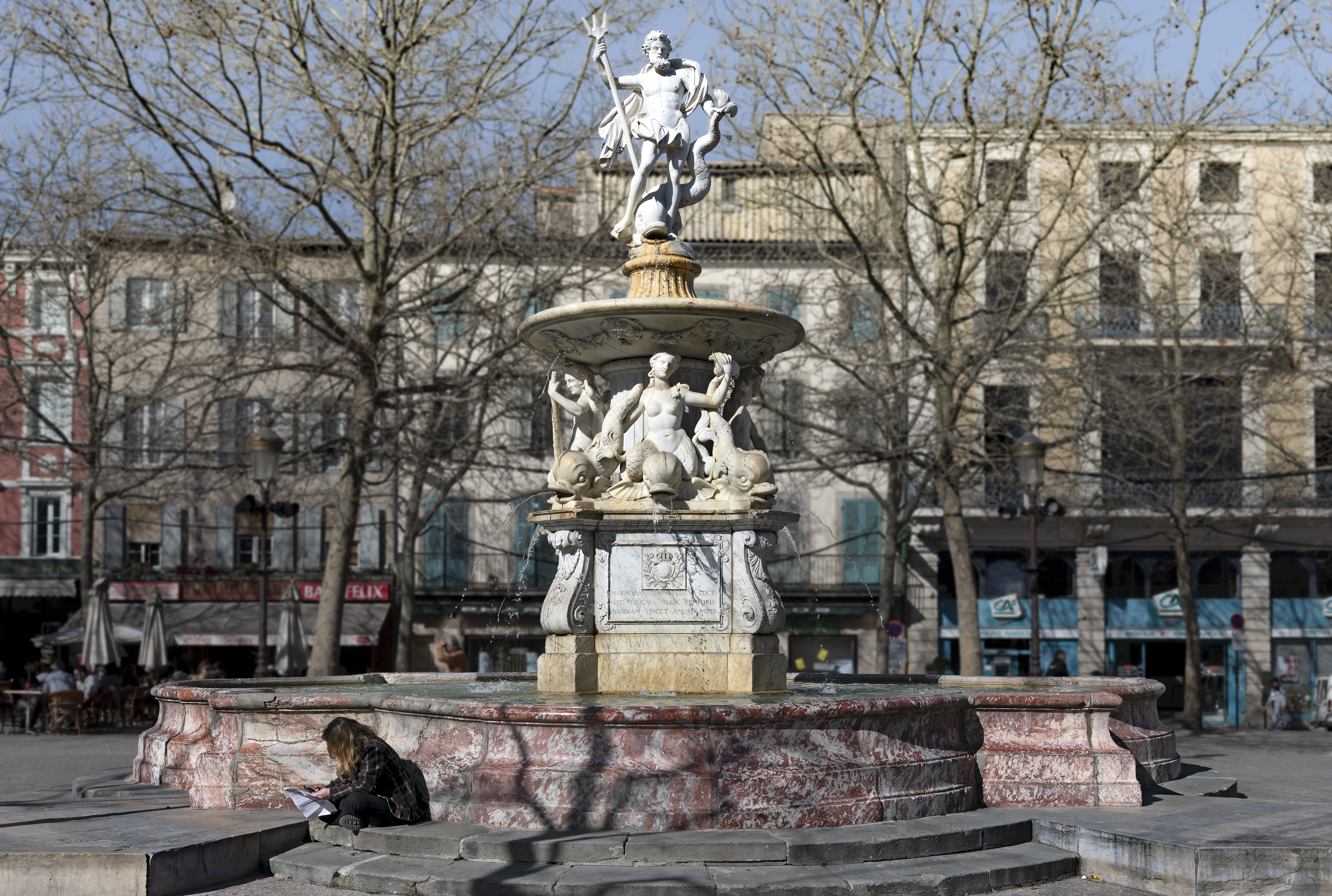 Monumental fountain, Place Carnot, completed in 1770, work of Italian sculptors Barata father and son